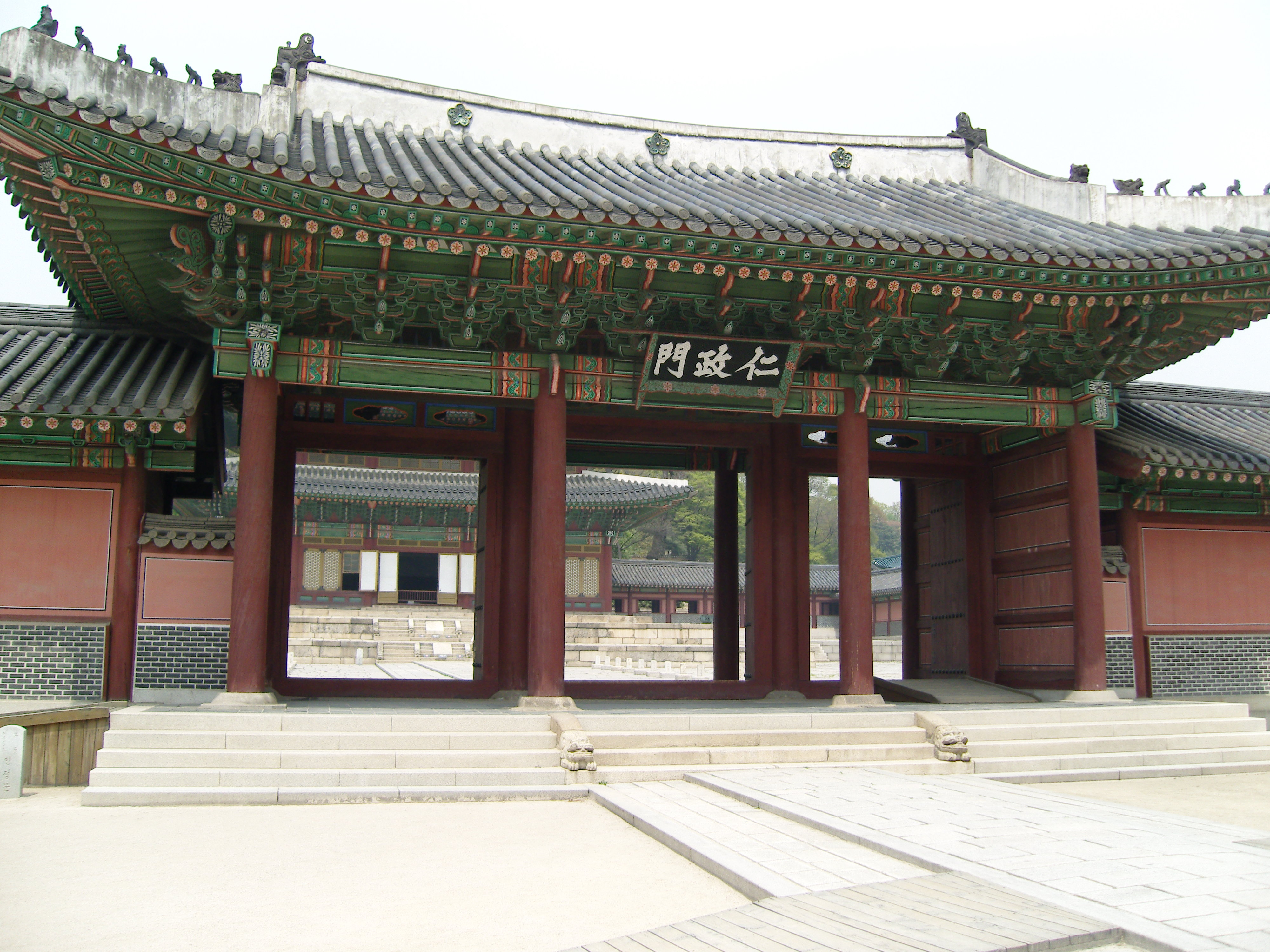 A view of Changdeokgung in the neighborhood of Waryong-dong, Jongno-gu, Seoul, South Korea